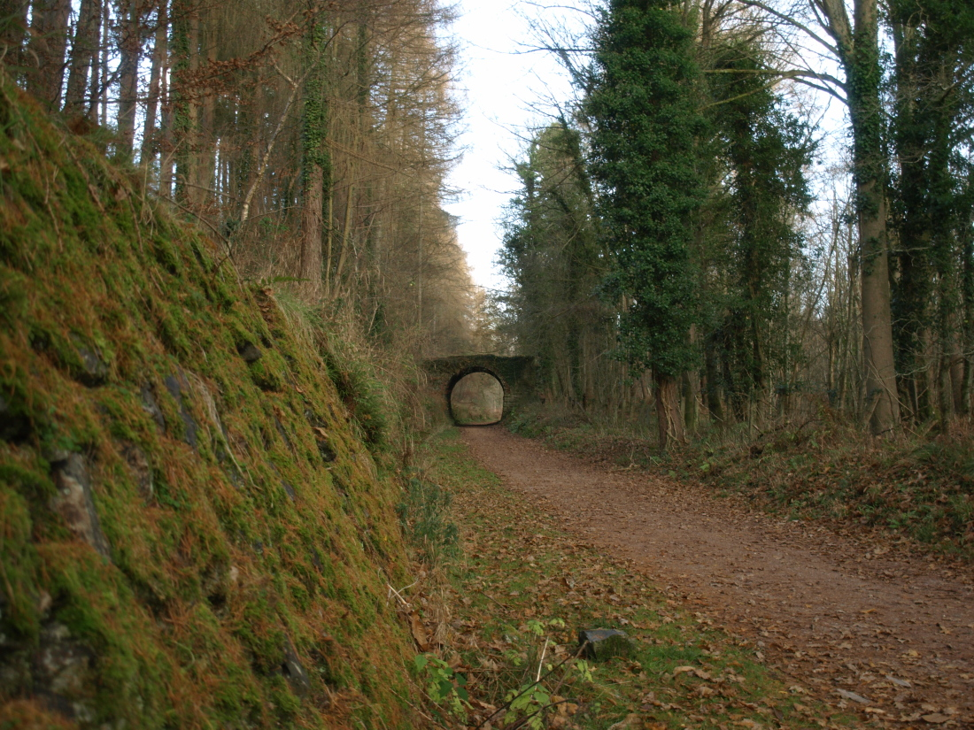 The disused Severn and Wye Valley Railway, taken on the approach to Drybrook Road Station from the West.